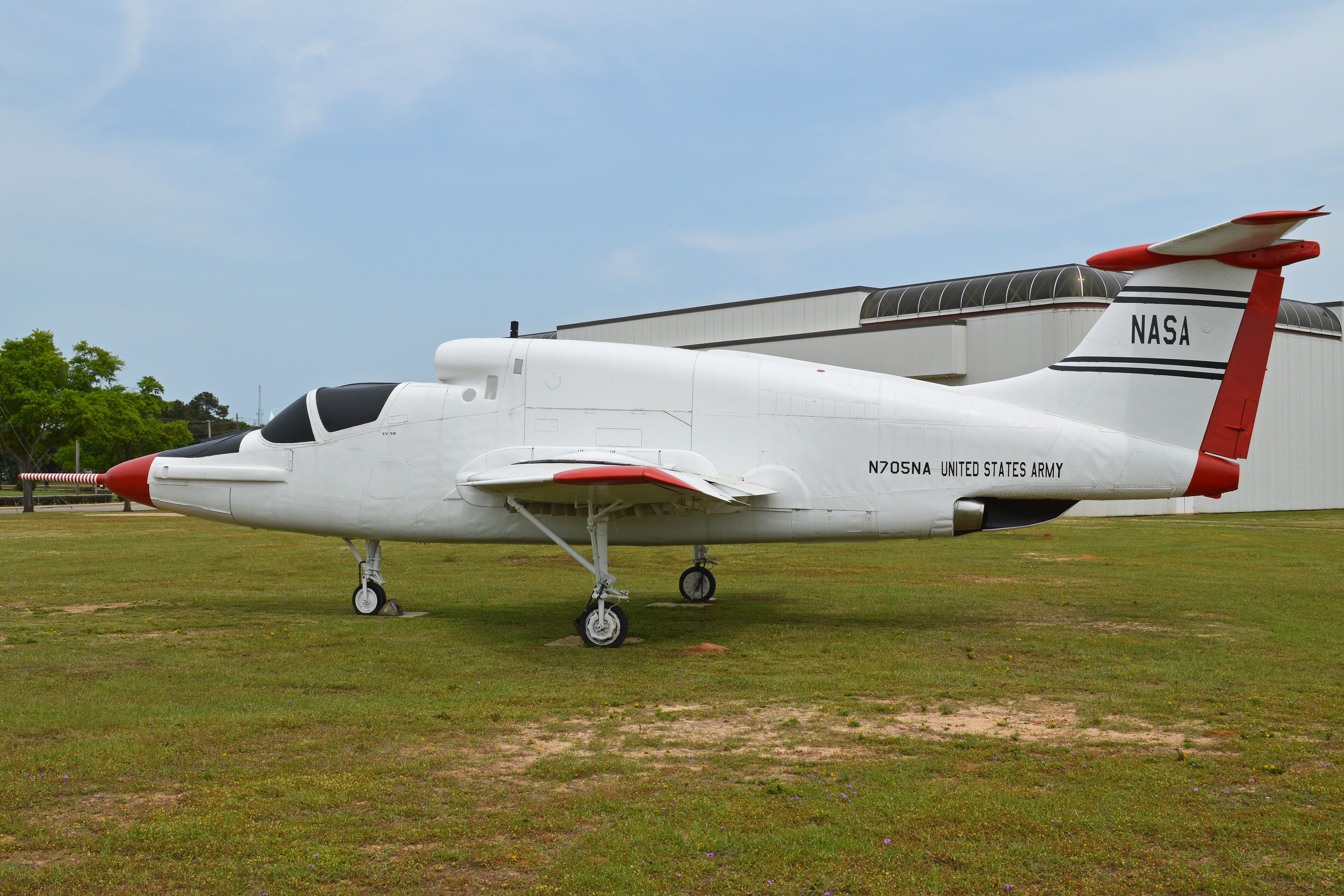 The XV-5 was an experimental V/STOL aircraft which first flew in 1964. It was powered by two General-Electric J85 engines with the exhaust gases directed through three fans, one in the nose and one in each wing. The system generated plenty of lift, although the transition between vertical and horizontal flight wasn't very smooth. Two were built, of which this was the second, the first being destroyed in a fatal accident. It's US military serial is 62-4506, although it is preserved in a joint US Army / NASA colour scheme. US Army Aviation Museum. Fort Rucker. Alabama, USA. 17-4-2013